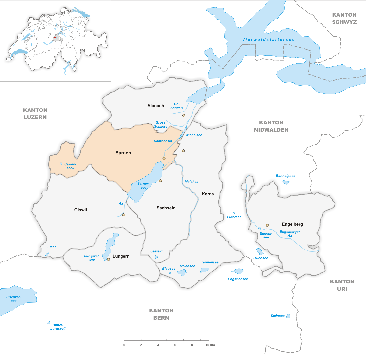 Municipality Sarnen